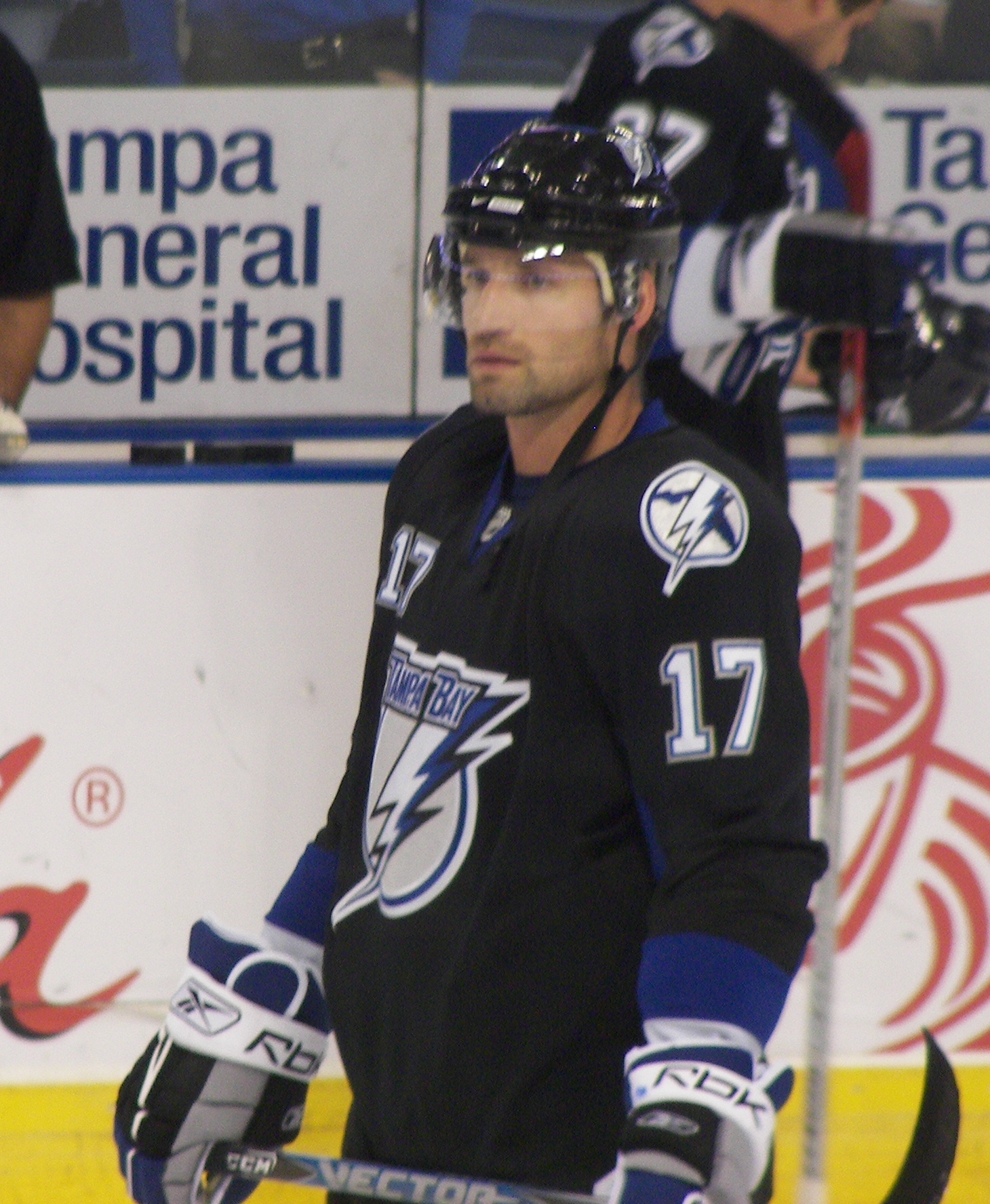 Jan Hlaváč of the Tampa Bay Lightning during a Lightning vs. Atlanta Thrashers ice hockey game at the St. Pete Times Forum in Tampa, Florida on October 20, 2007.